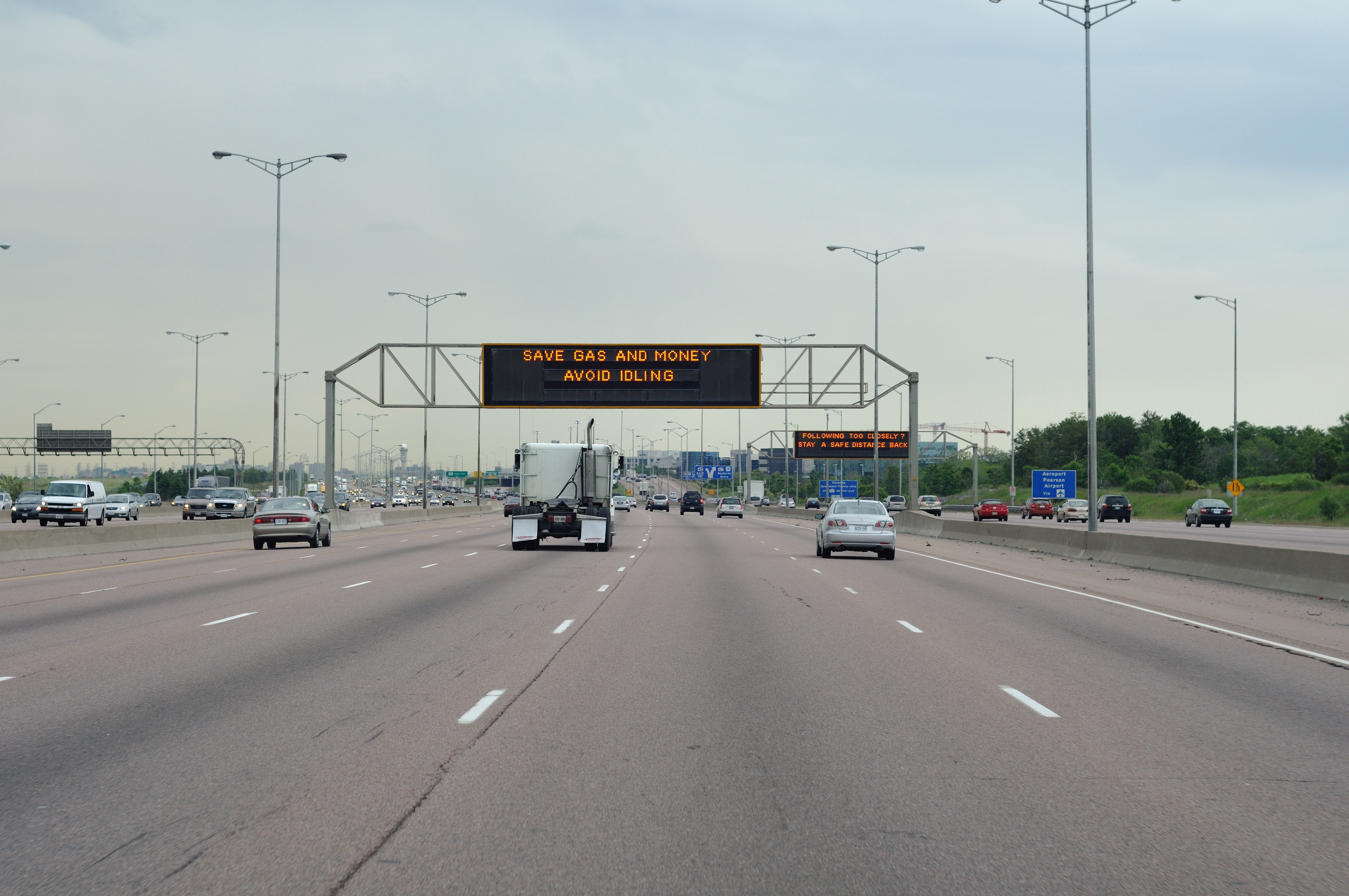 Highway 401's widest point: 18 lanes wide near Pearson Airport in Toronto, Ontario, Canada.